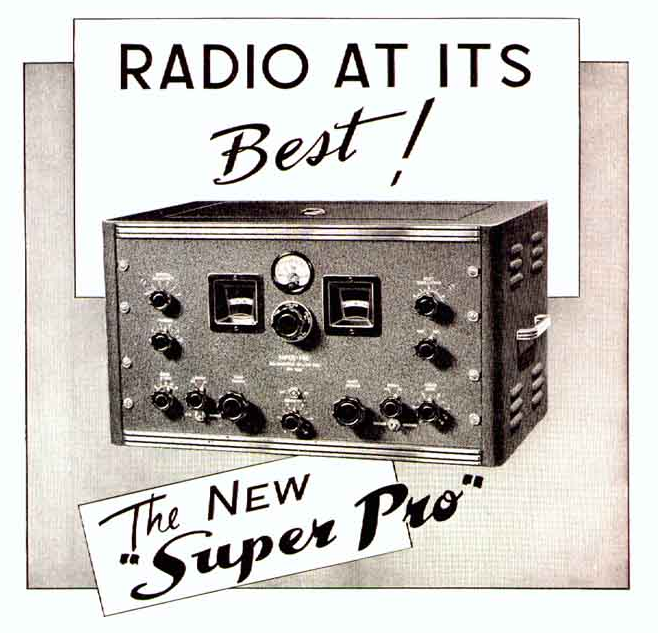 1939 advertising for Hammarlund Super Pro by LuckyLouie 15:58, 27 December 2006 (UTC)